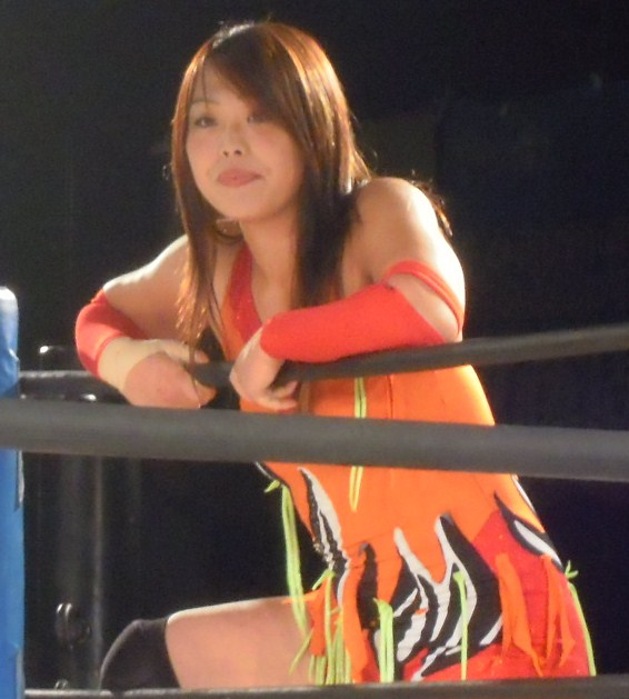 Japanese professional wrestler,Hiroyo Matsumoto.July 11 2010,OZ ACADEMY Shinjuku FACE.